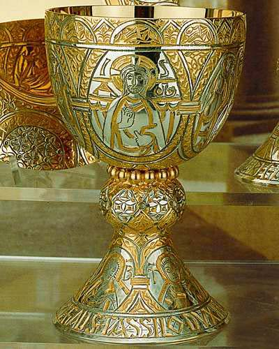 Tassilo Chalice (reproduction).